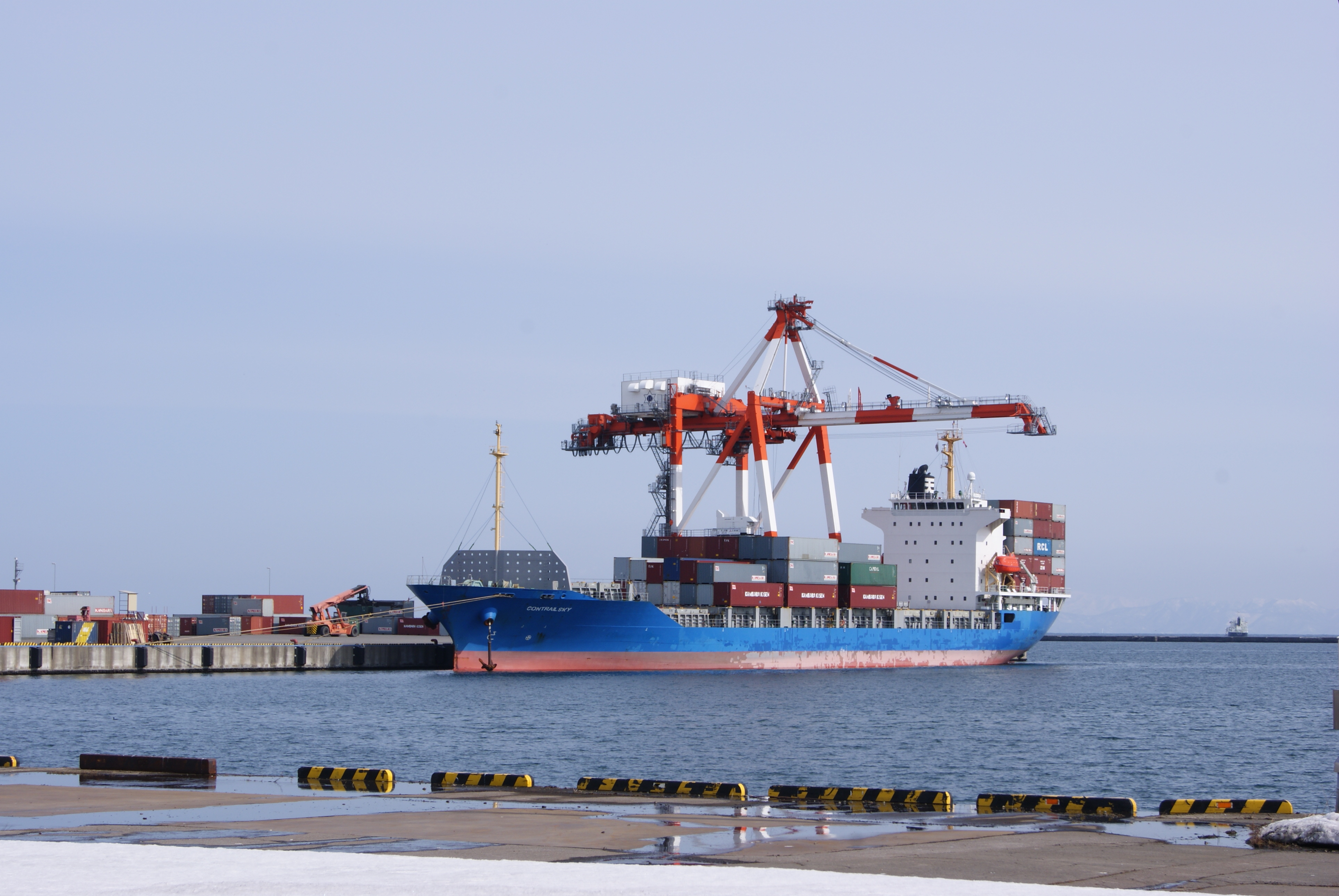 Contrail Sky at Otaru. Sony DSLR-A330